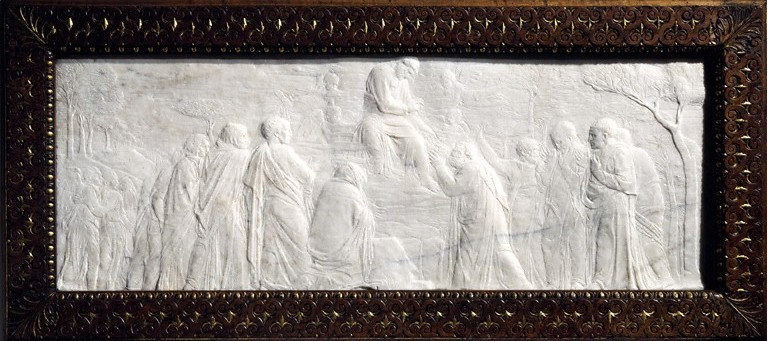 Donatello - The Ascension with Christ giving the Keys to St Peter